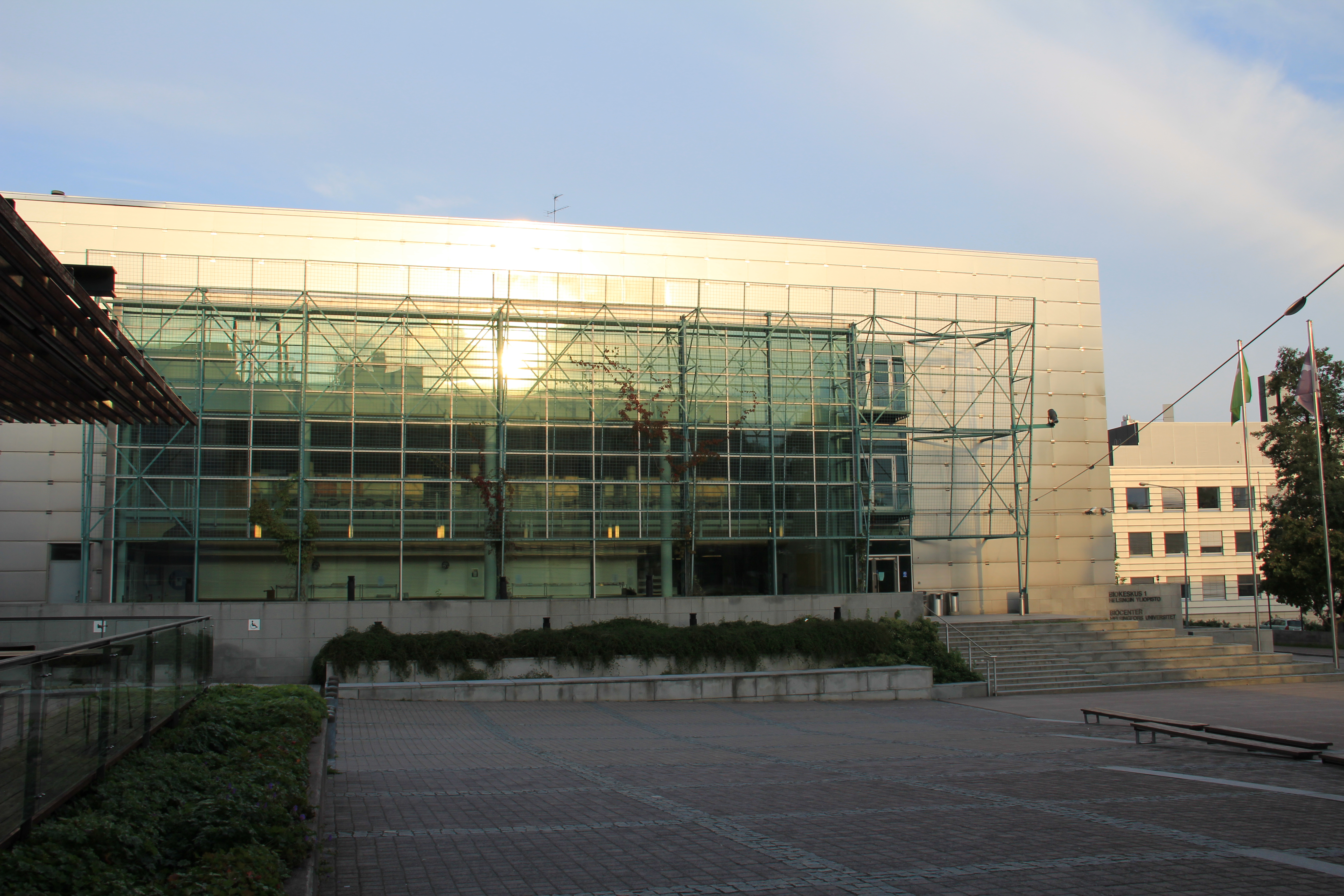 The Institute of Biotechnology at the University of Helsinki, Viikki Campus, Helsinki, Finland.